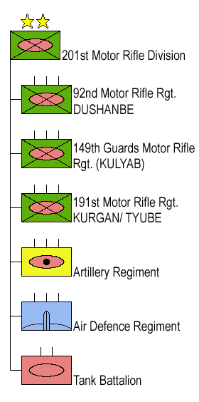 201st Motor Rifle Division, Russian Ground Forces